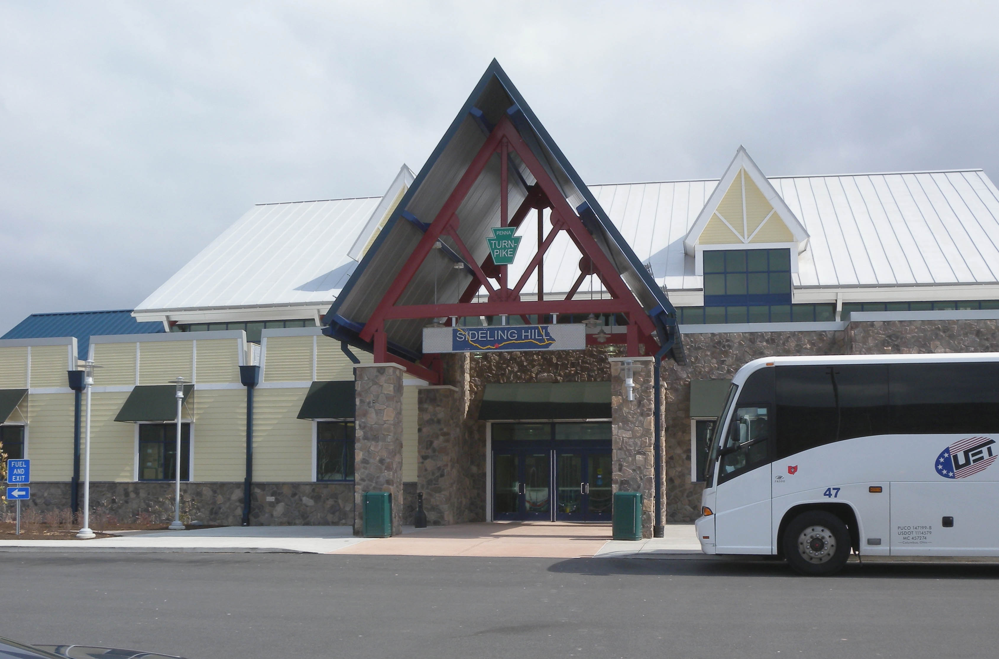 Looking east at Sideling Hill Rest Stop on north side of Pennsylvania Turnpike, on a mostly cloudy afternoon.